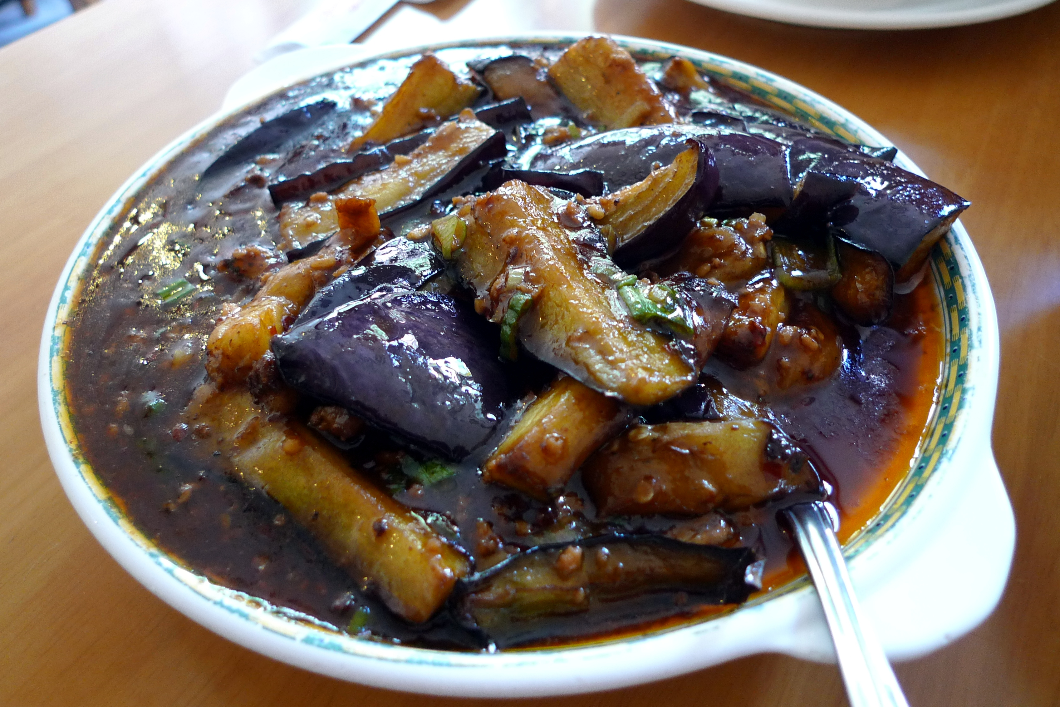 魚香茄子, a kind of Sichuan style dish with eggplants as the main ingredient.